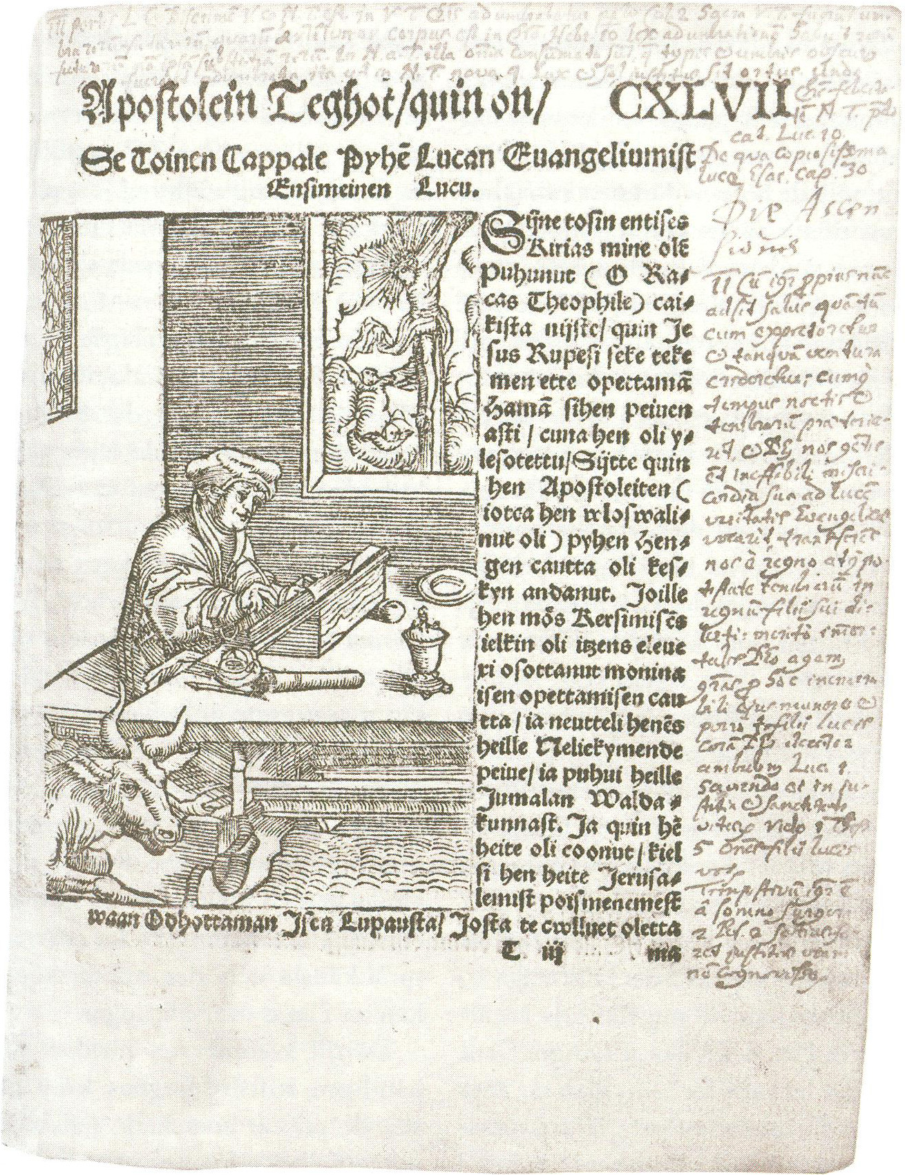 A page from the Acts in the first edition of the New Testament in Finnish, translated by by Mikael Agricola.